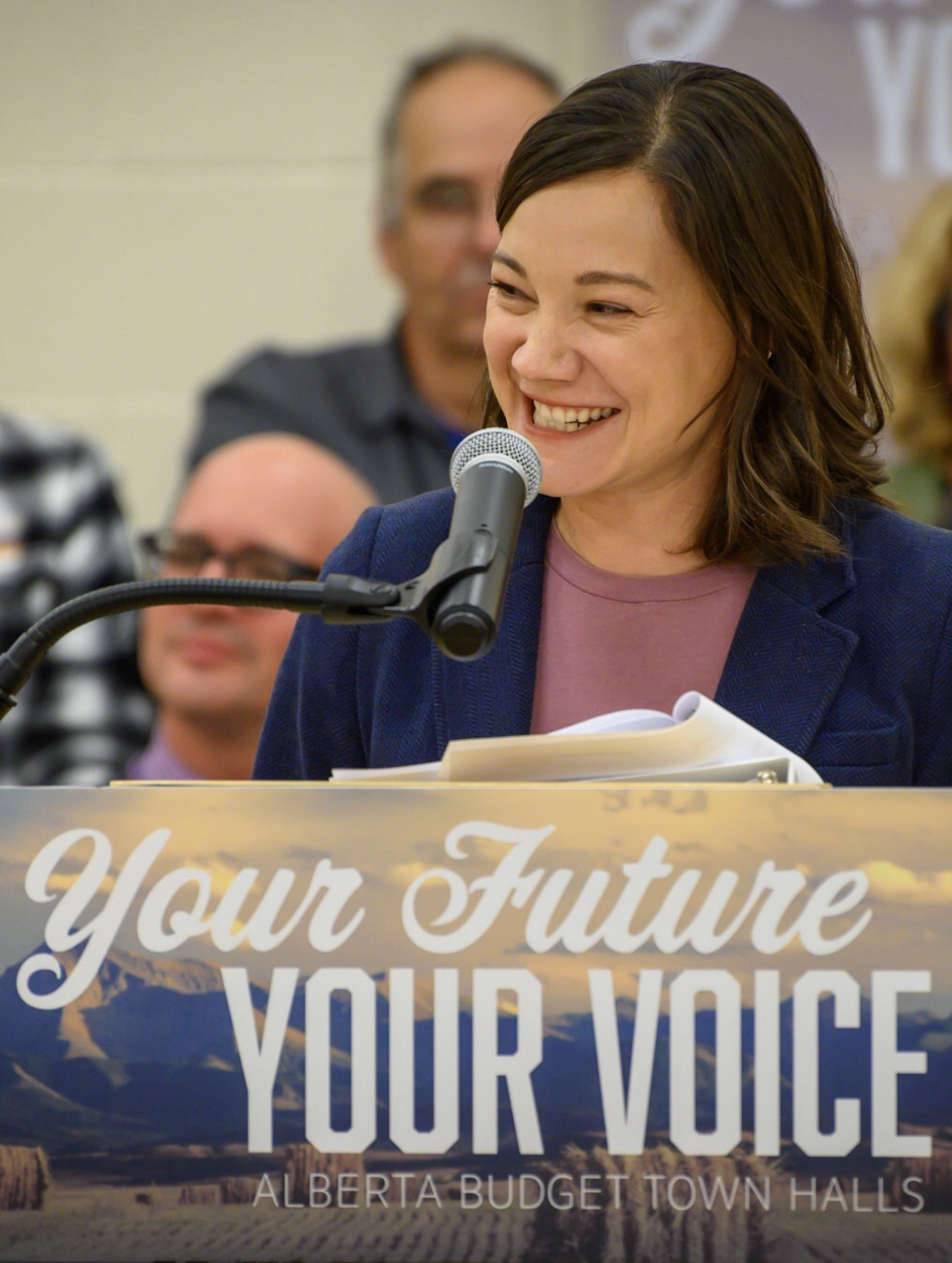 MLA Shannon Phillips (Lethbridge West) speaking at an NDP Budget Town Hall at Ecole Nicholas Sherman School in Lethbridge, Alberta